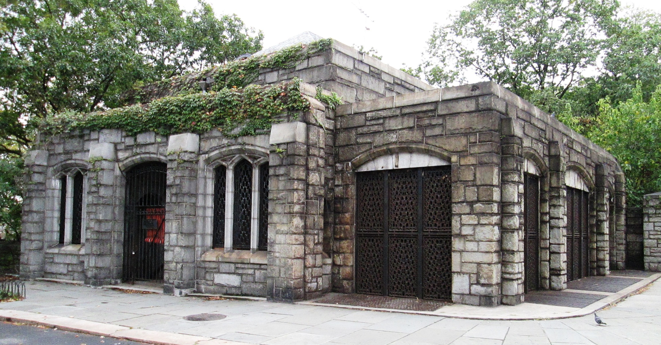 The 190th Street subway station on the IND Eighth Avenue Line, "A" service, is located on Fort Washington Avenue at Corbin Circle, the intersection with Cabrini Boulevard, in the Hudson Heights neighborhood of Manhattan, New York City. Built in 1928-32, it was designed in part by Squire J. Vickers. A brick building, it was later provided with a stone facade to match the entrance to Fort Tryon Park across the Circle. Formerly called "190th Street-Overlook Terrace", the station has a tunnel leading to Bennett Avenue in Washington Heights, as well as stairs to Fort Washington Avenue. The station was listed on the NRHP in 2005.